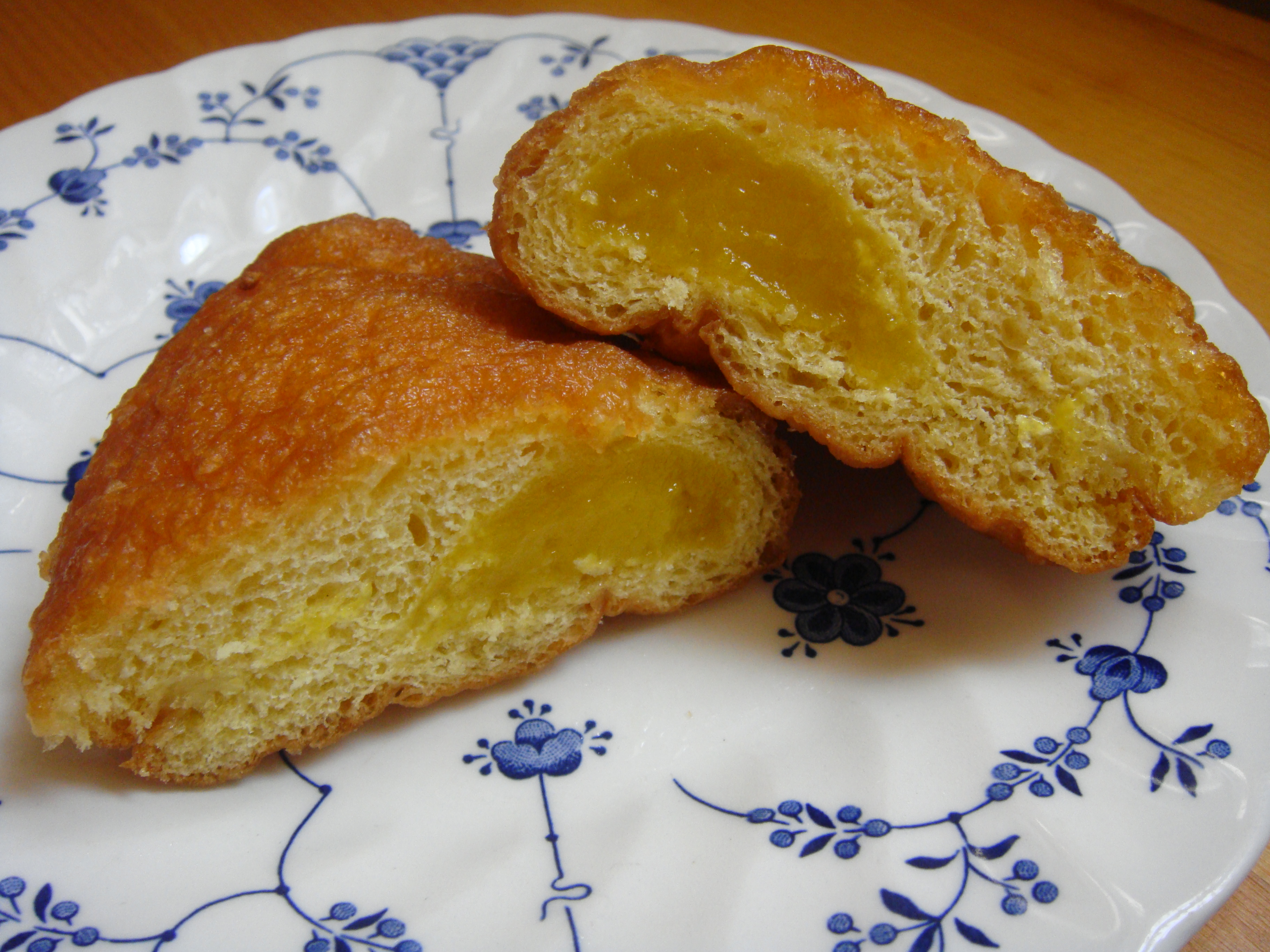 A Japonesa from Amar's J J B Bakers in Gibraltar cut in half.